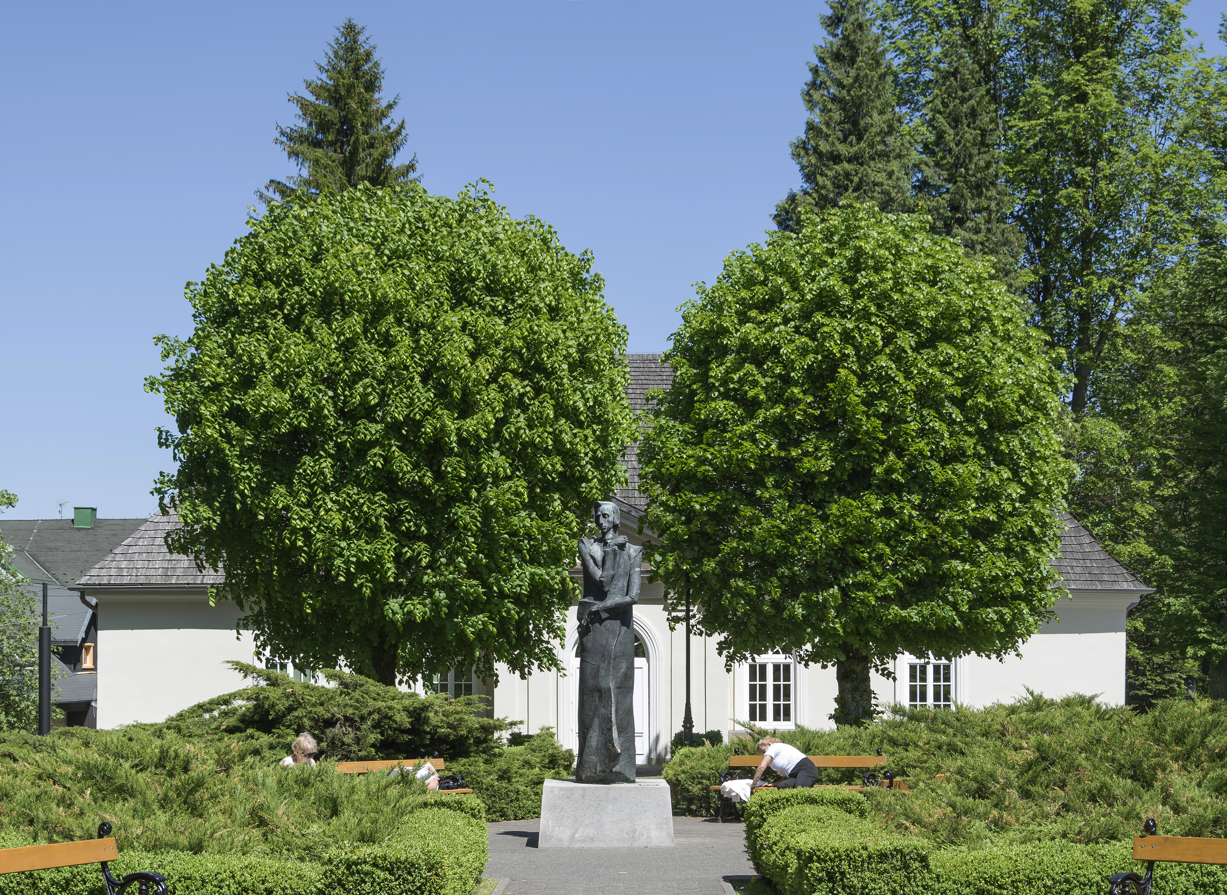 Frederic Chopin Theatre in Duszniki-Zdrój